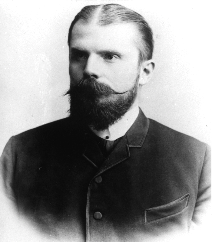 Paul Staudinger (born 1859), 1888 after the african voyage